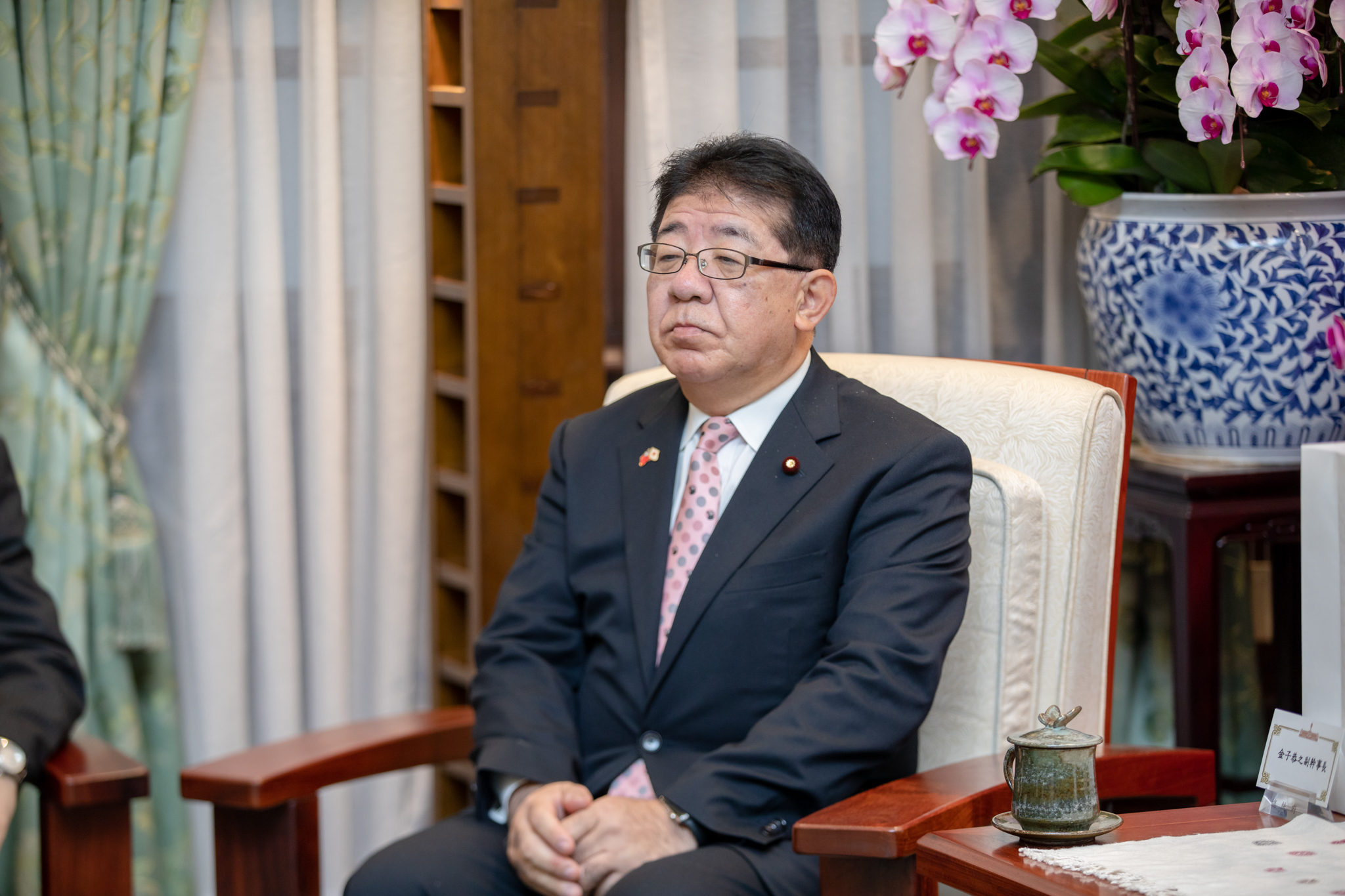 Official Photo by Wang Yu Ching / Office of the President